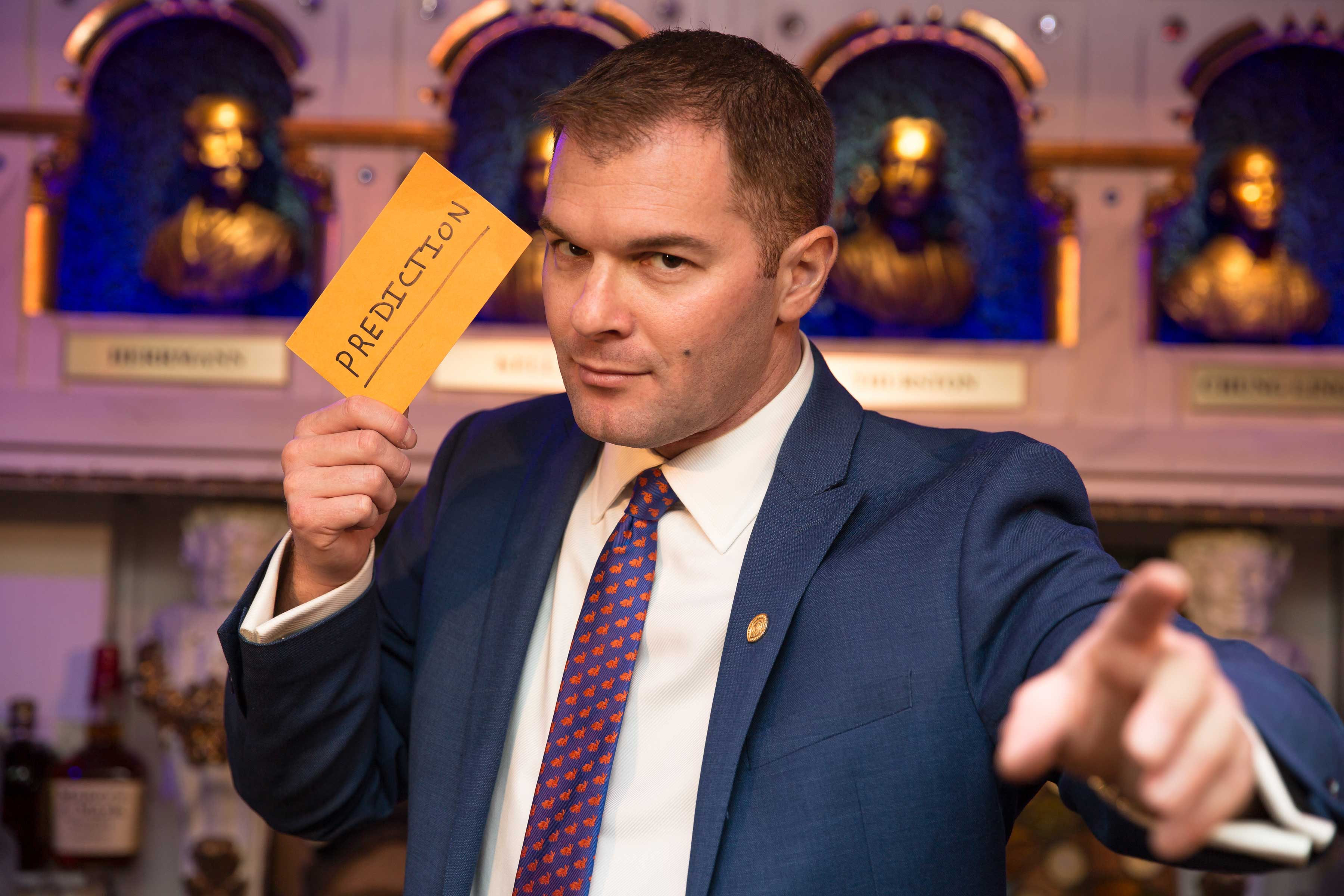 Michael Gutenplan headshot